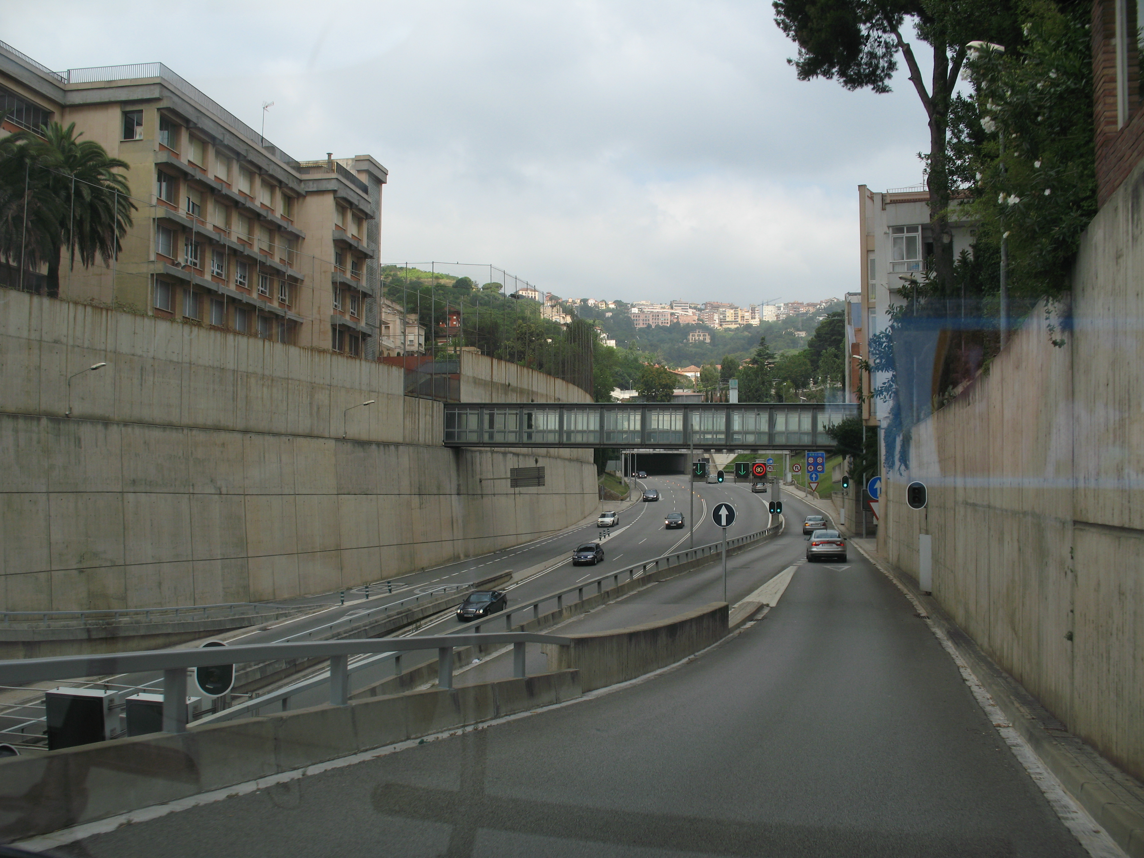 The C-16 catalan motorway starting from Barcelona.